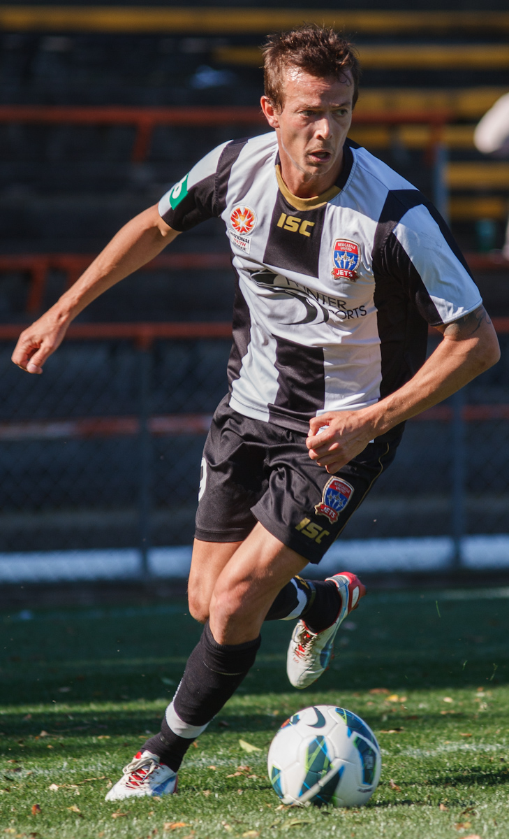 Ryan Griffiths playing in a pre-season match between Sydney FC and Newcastle Jets.